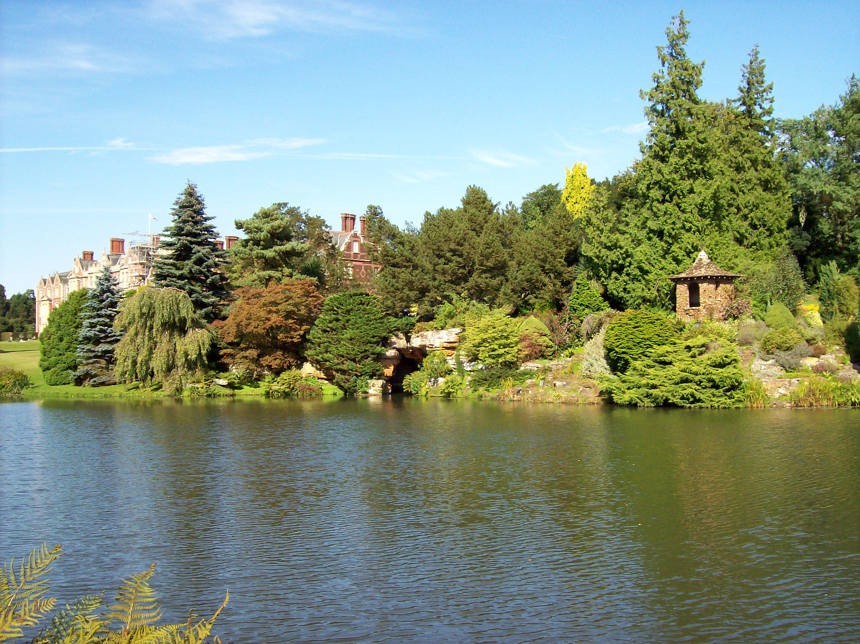 Upper Lake and The Nest at Sandringham House, Norfolk